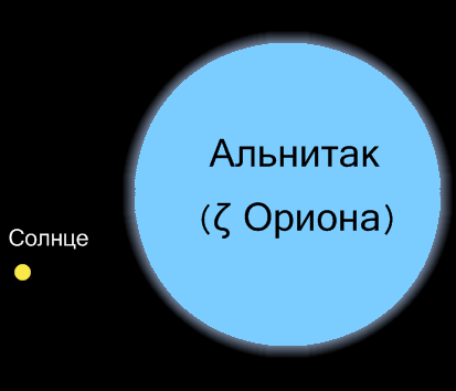 Size comparison between sun and the blue giant star Alnitak (zeta Ori), which is approx. 20 times bigger than the sun.